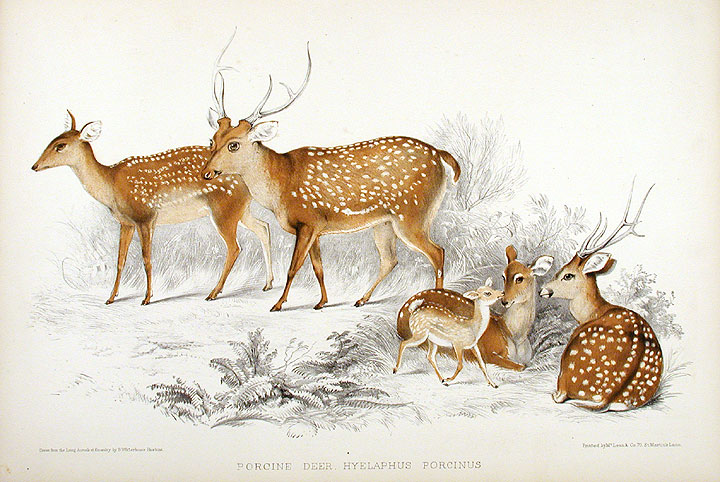 Porcine Deer, Hyelaphus porcinus, Printed by McLean & Co., circa 1850, Hand-coloured lithograph, 14 7/8 x 21 3/4 inches. From John Edward Gray's "Gleanings from the Menagerie at Knowsley" in Victorian England.